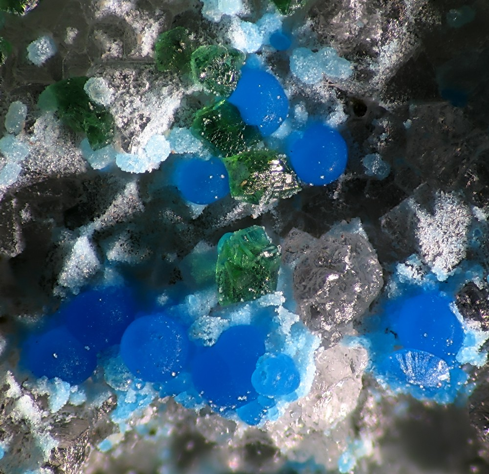 Sieleckiite Locality: Mount Oxide Copper mine, Mount Gordon, Gunpowder District, Mt Isa - Cloncurry area, Queensland, Australia Blue sieleckiite with green libethenite. Picture width 3 mm. Collection and photograph Christian Rewitzer